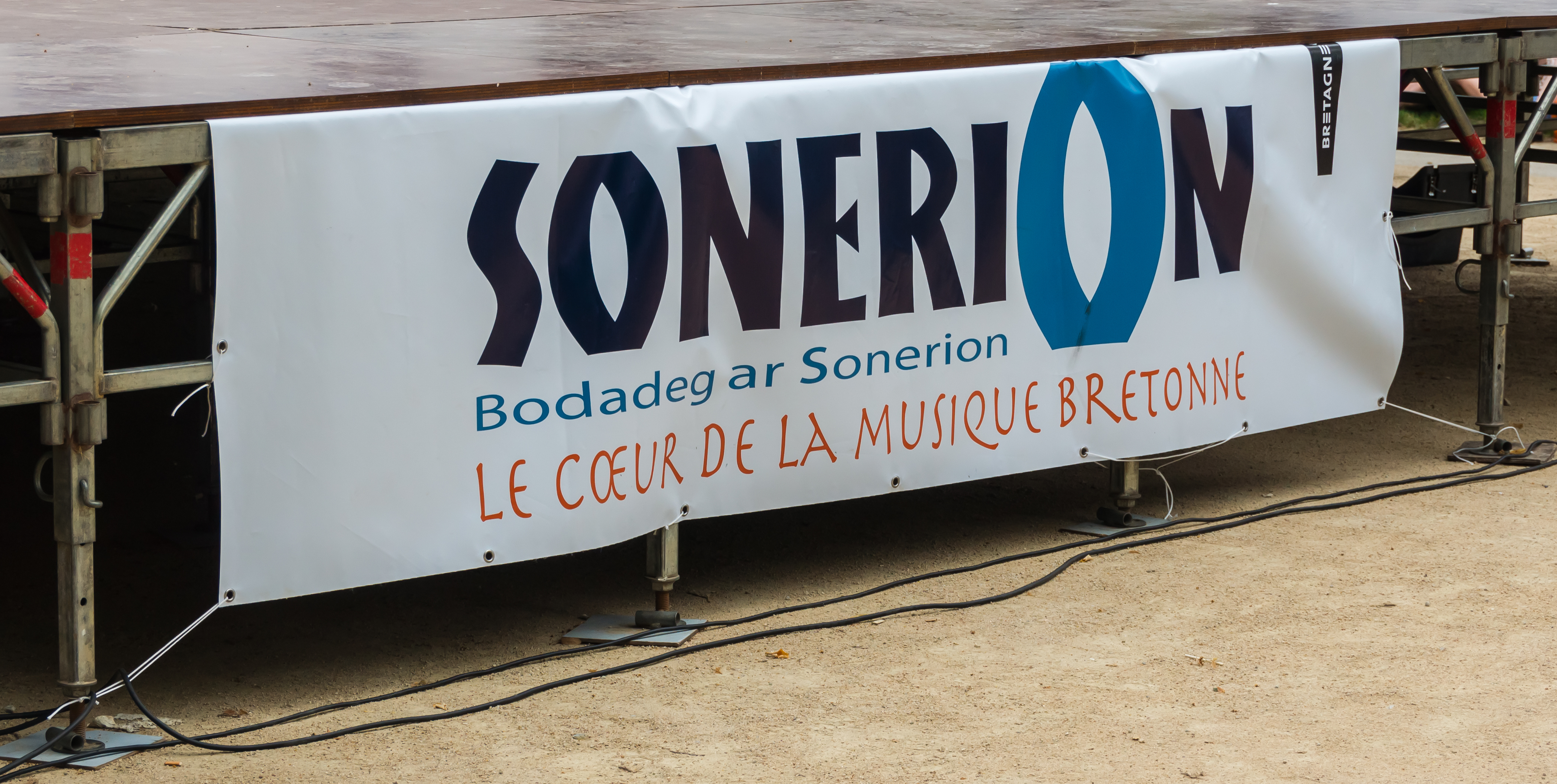 Streamer on a stage, bagad contest, July 12, 2014, Vannes, Morbihan, France. "The heart of the breton music".